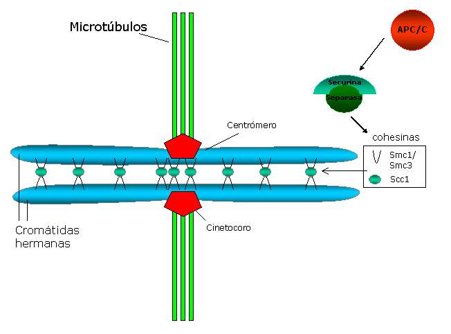 Scheme showing sister chromatids cohesion. Made in PowerPoint.